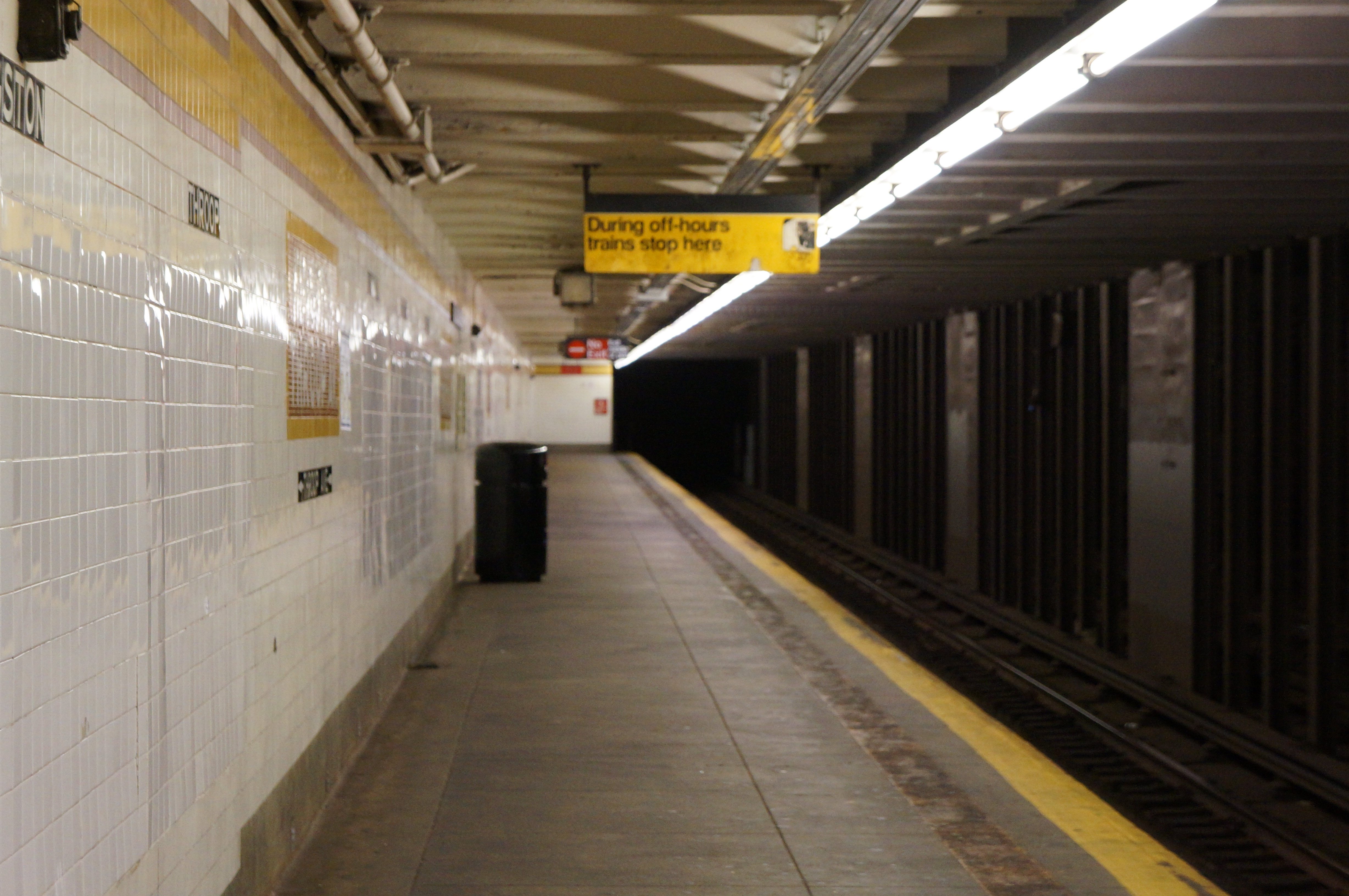 Looking towards the south end of Kingston-Throop Avs.